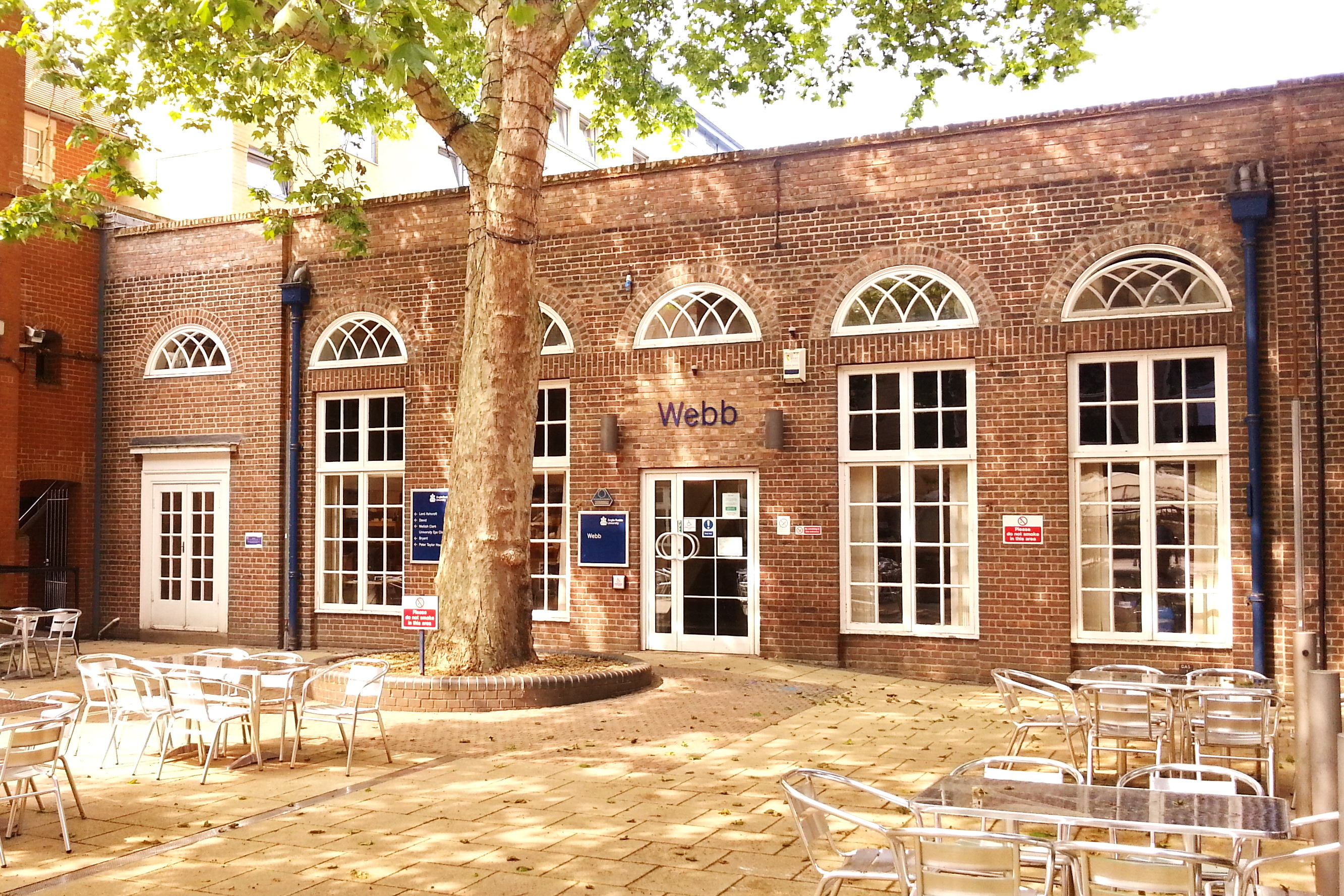 Webb Building, one of the university’s pre-WWII establishments, houses administrative and academic organs of the Faculty of Health, Social Care & Education.